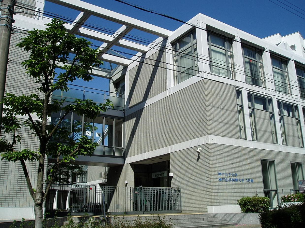 Bldg. #3, Kobe Yamate University located in Chuo-ku, Kobe, Hyogo, Japan.